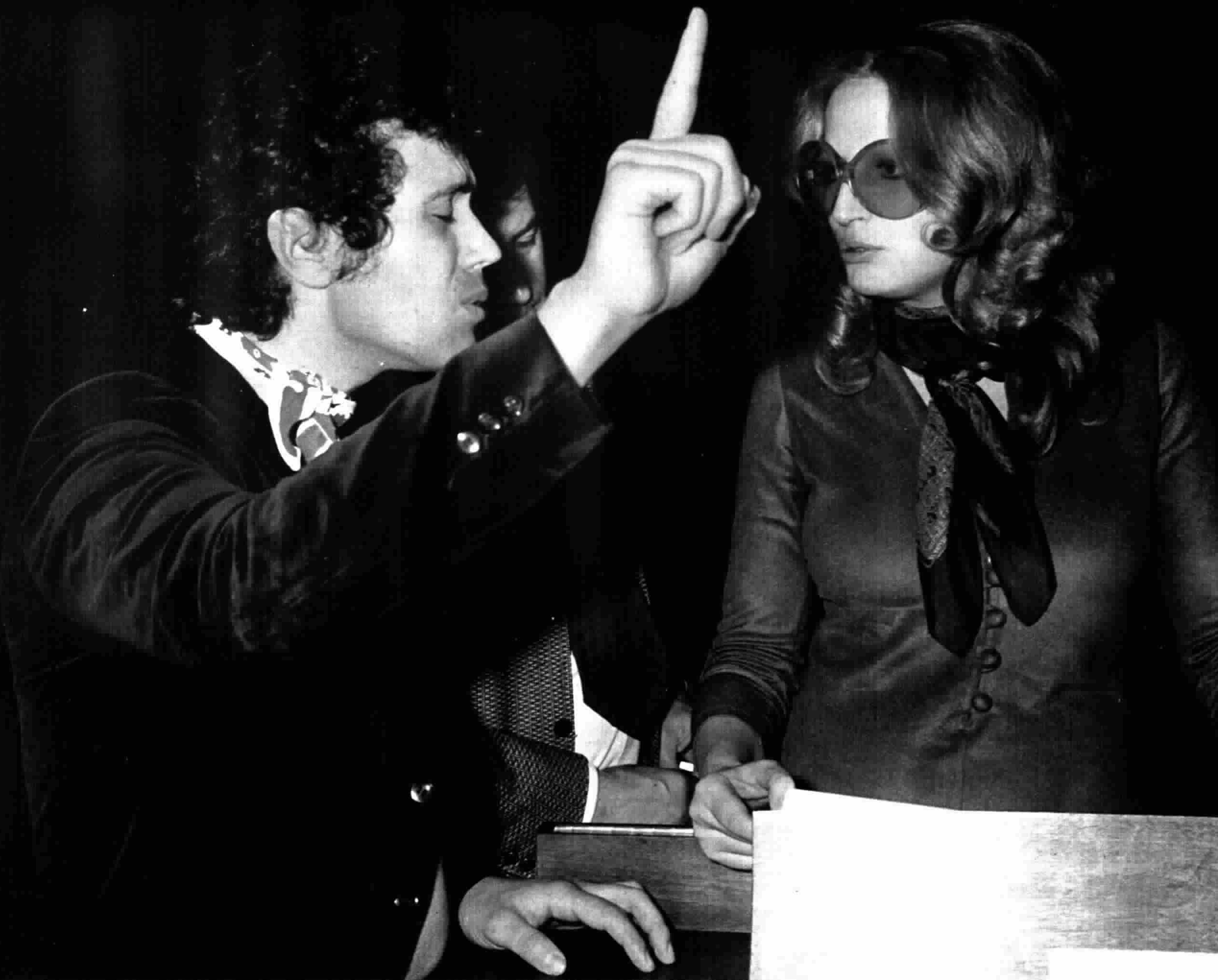 Italian singers Mina and Lucio Battisti